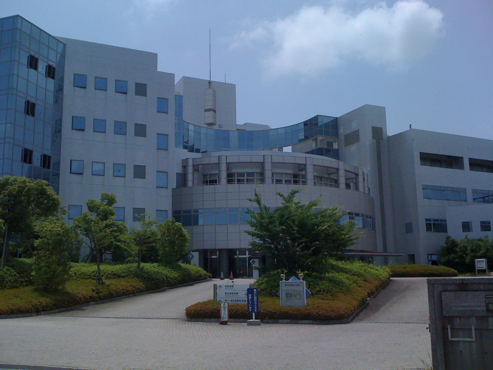 Technology Research Institute of Osaka Prefecture